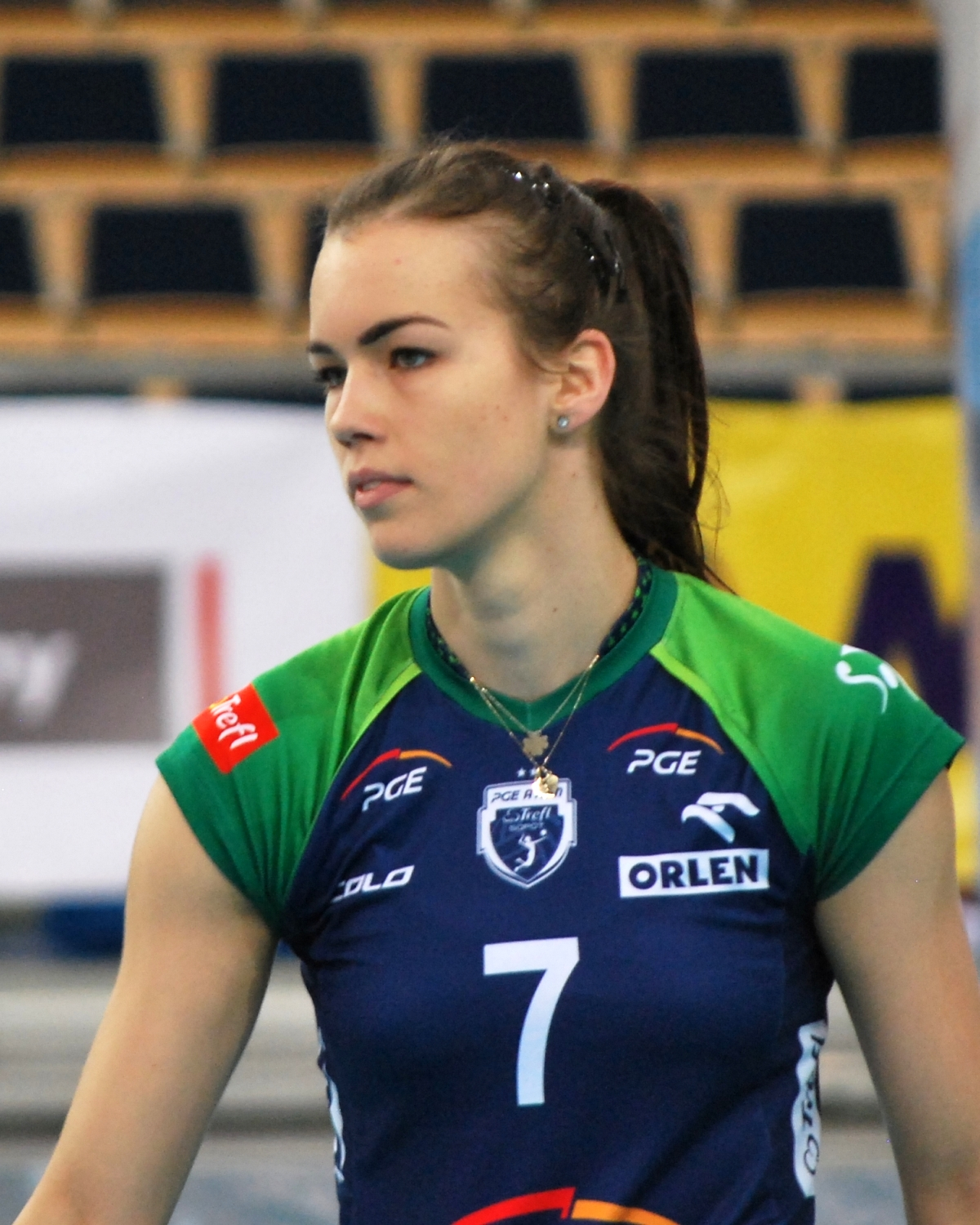 Magdalena Damaske, a volleyball player from Poland.